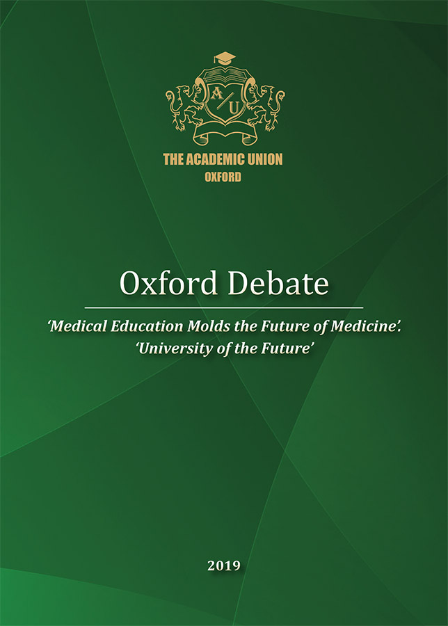 Cover of conf. "Oxford Debate"